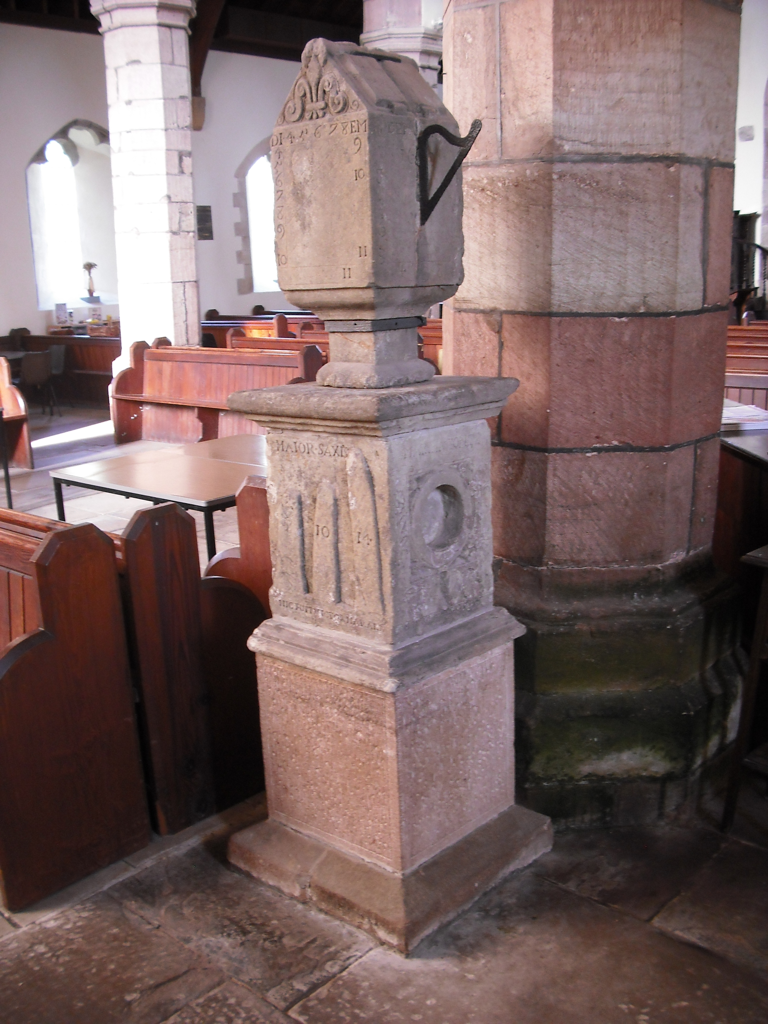 Church of St Nicholas, Trellech - ancient sundial